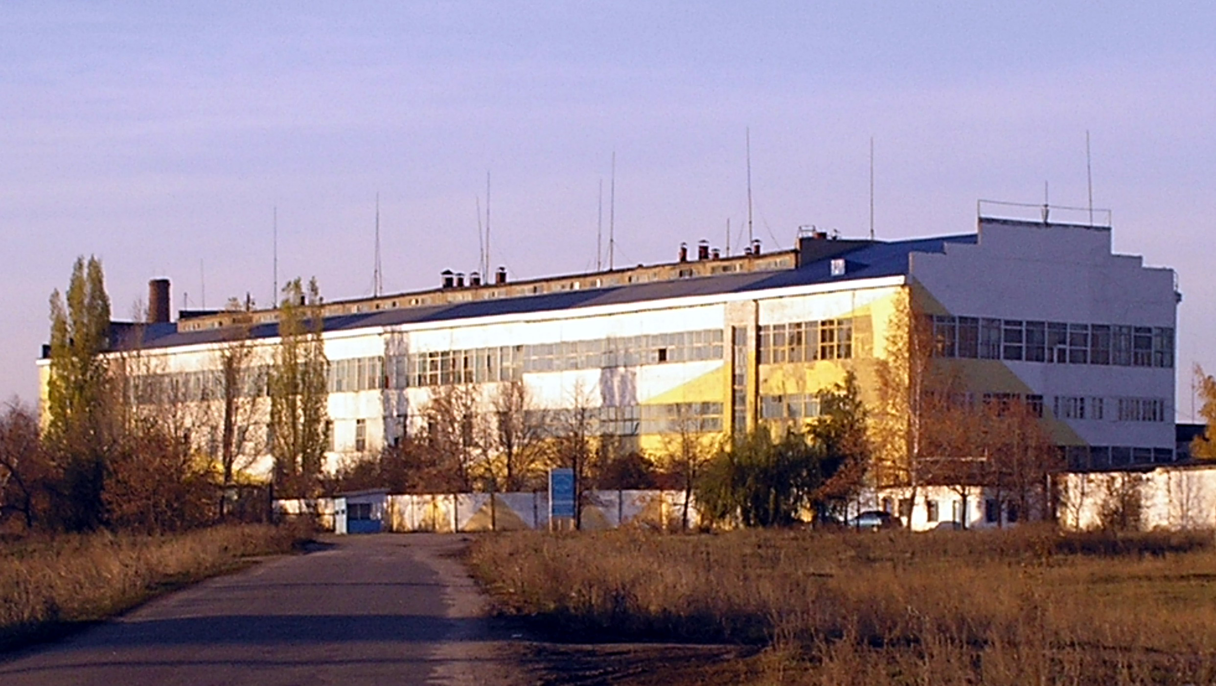 Rtishchevsky absorbent cotton factory